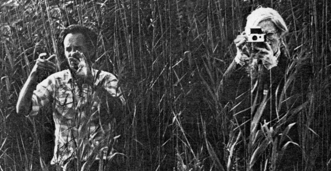 Andy Warhol (right) and Ulli Lommel on the set of Cocaine Cowboys